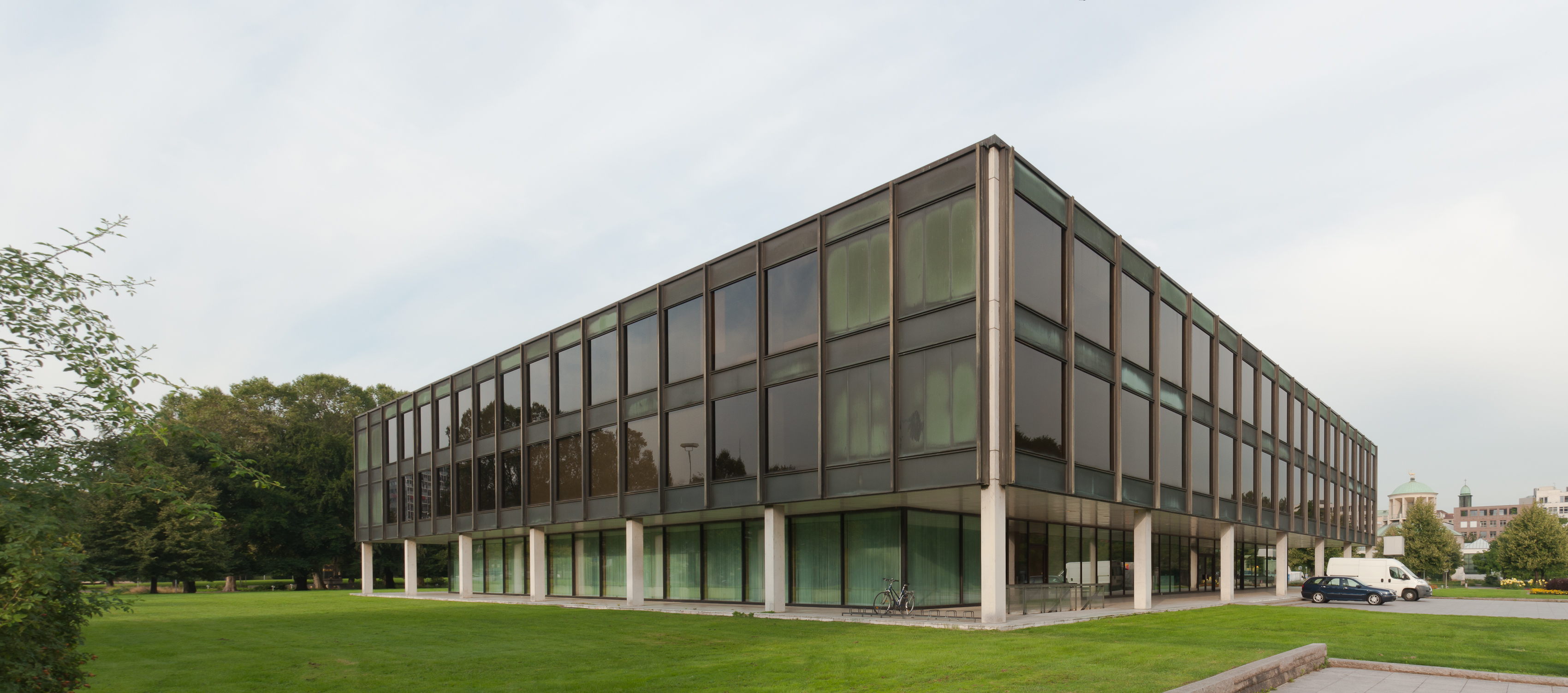 Parliament of Baden-Württemberg in Stuttgart.